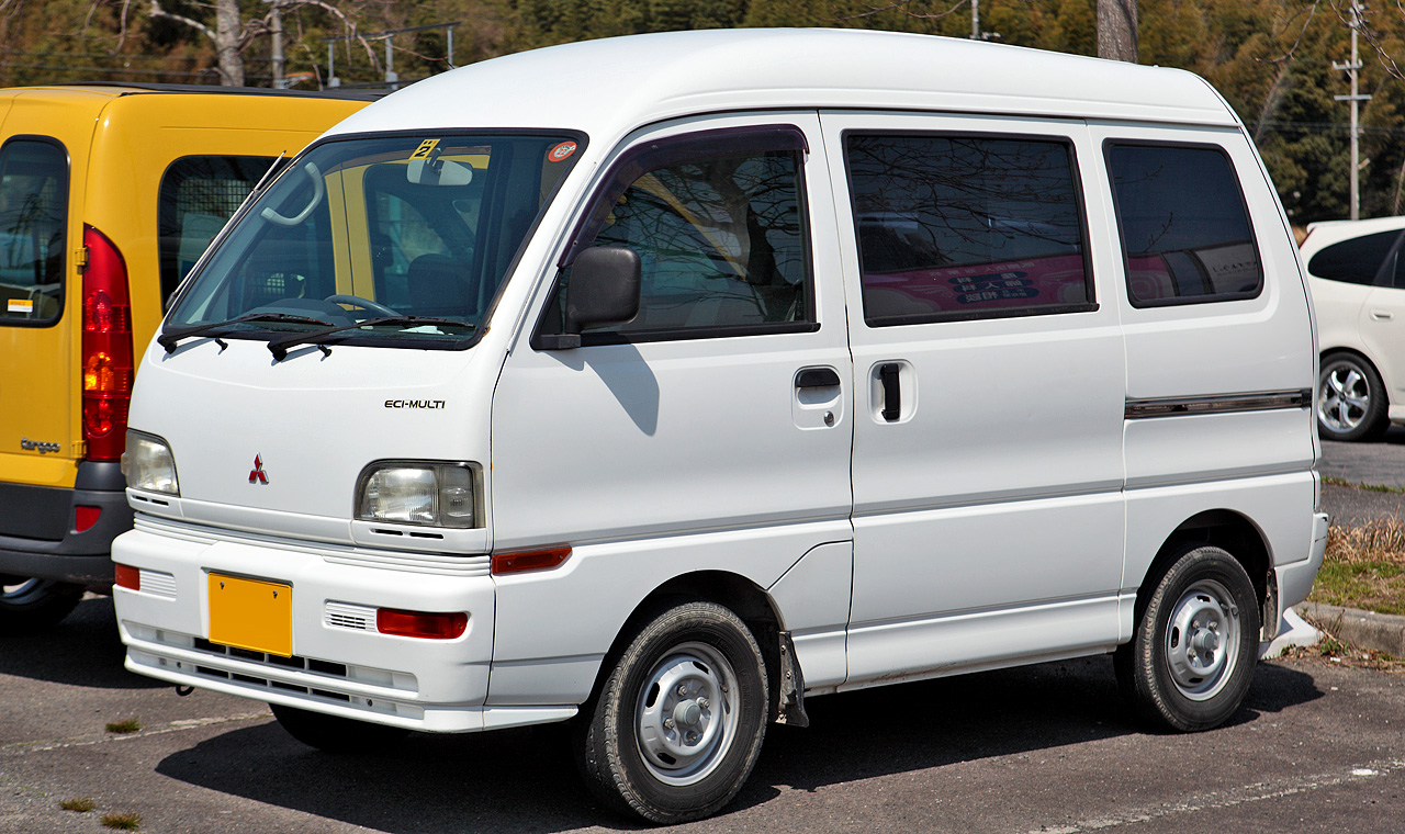 5th generation Mitsubishi Minicab van